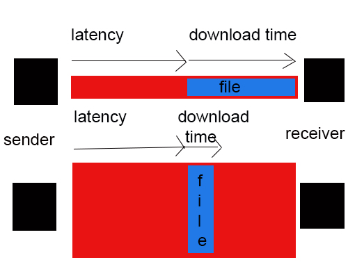 latency versus bandwidth